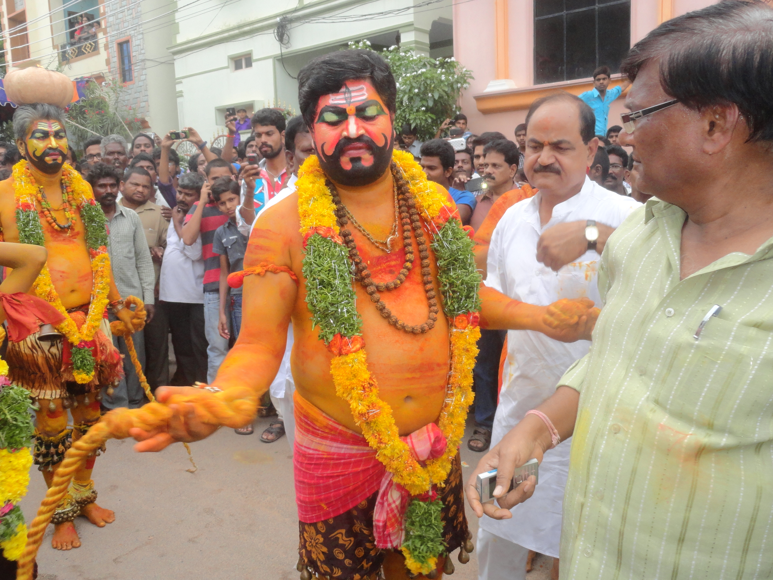 poturaaju in front of Goddess procession